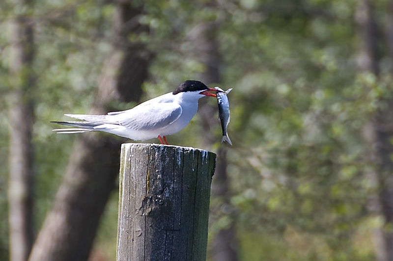 Common Tern (Sterna hirundo)